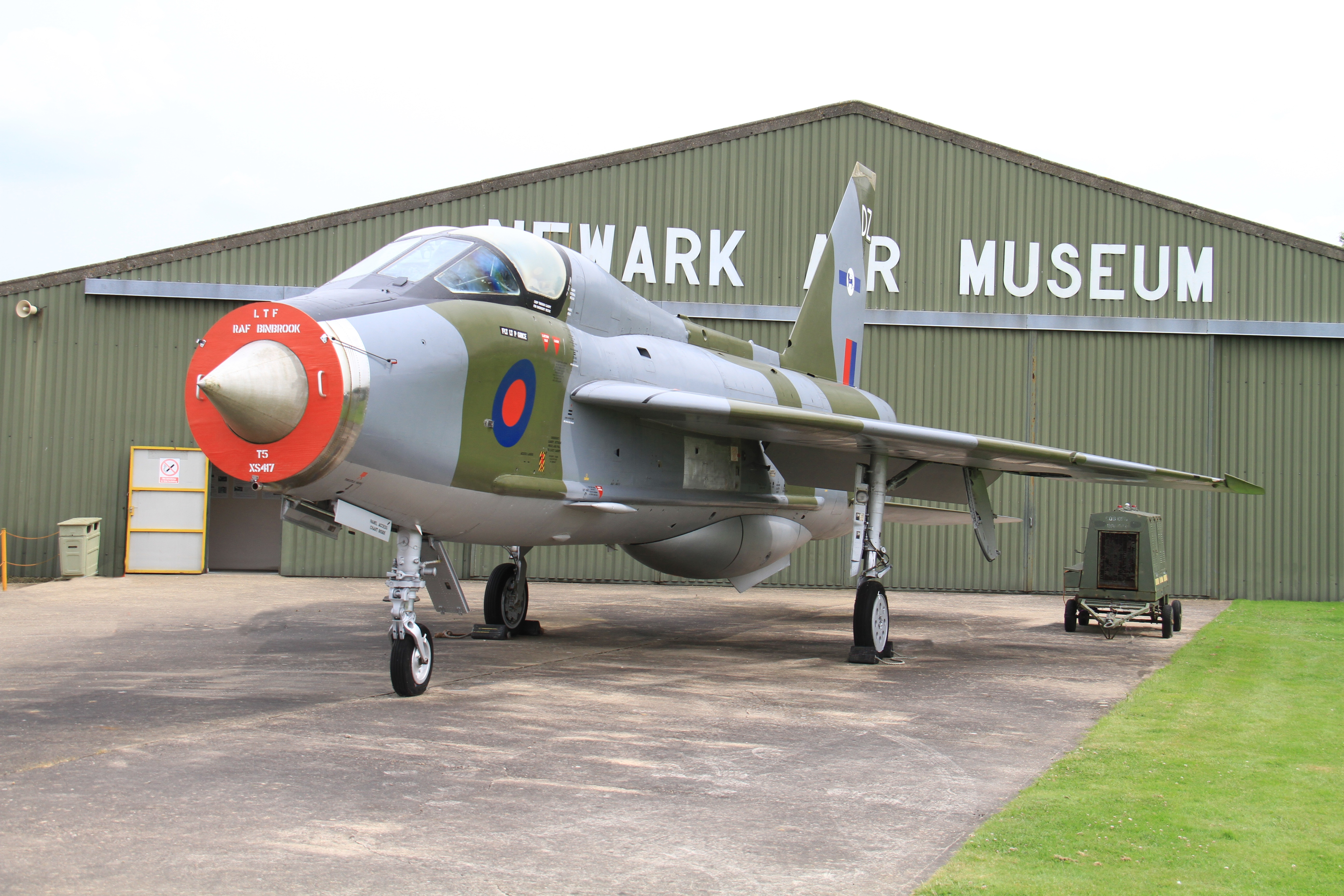 English Electric Lightning T.5 XS417